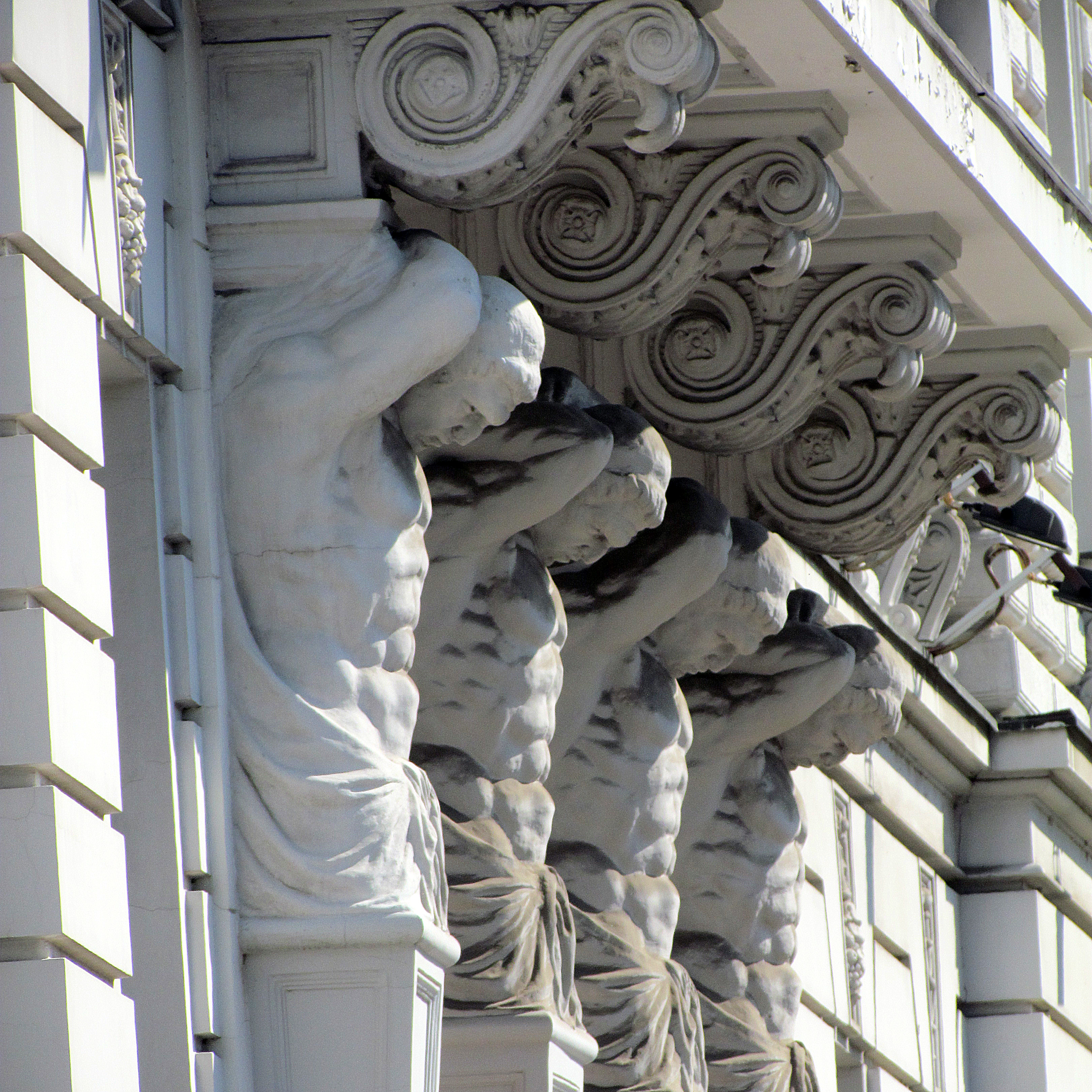 Telamons on building of Ministry of Finance (Serbia)